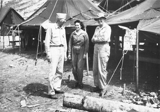 US Marine BGen Francis F Mulcahy, Commander Air Solomons, at right, at his headquarters at Munda Point, New Georgia, August 1943. On the left is Army Air Force Col Fiske Marshall and lstLt Dorothy Shikoski, an Army nurse who flew with Marine transport squadrons during medical evacuations.